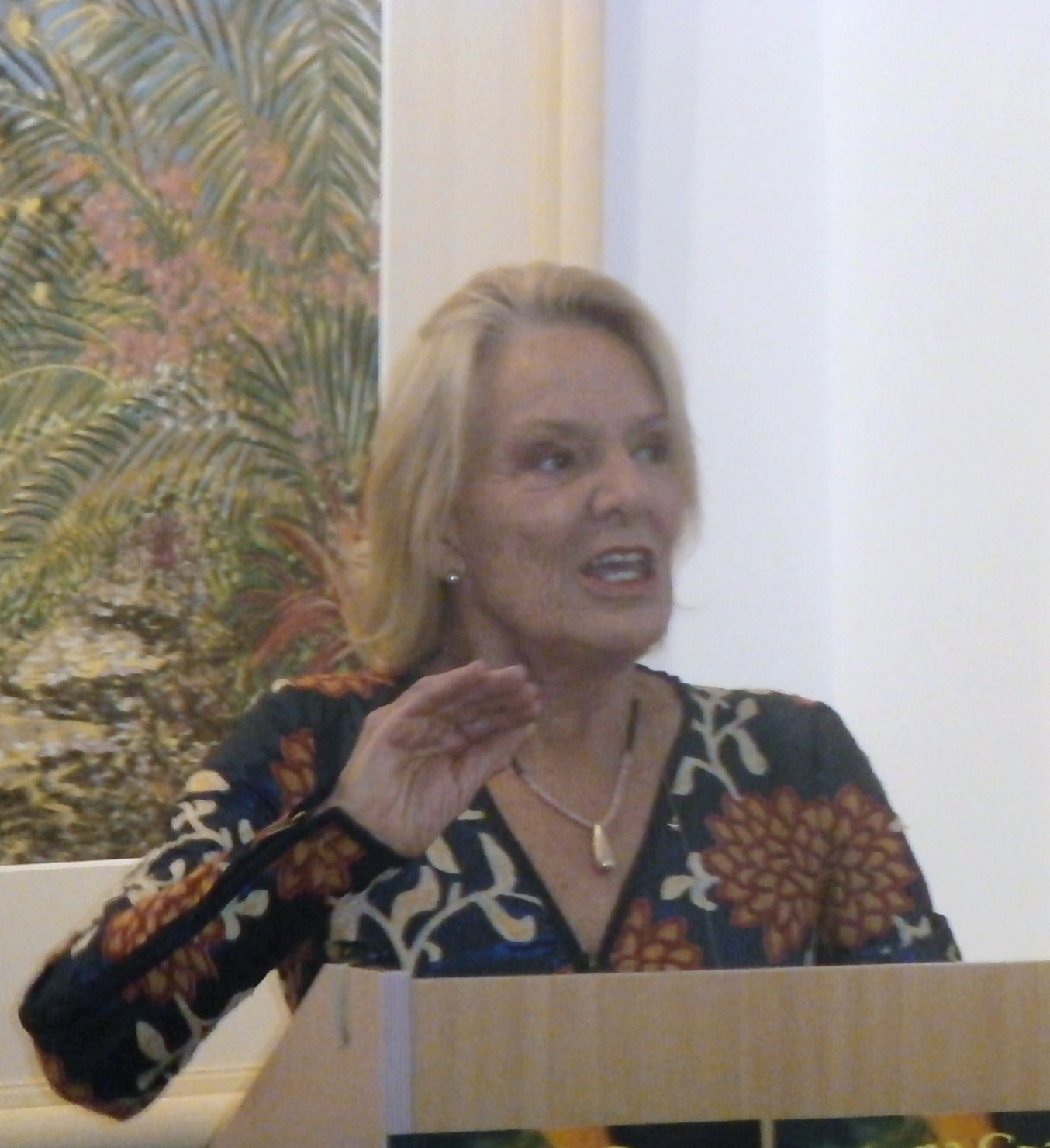 The Feile na Greine festival opening was set in the midst of what Minister Jimmy Deenihan termed 'the best exhibition of Pauline Bewick paintings' that he had seen - and he has known her a long time. She gave an enlightening speech in which she said that she and other artists sometimes paint pictures that foretell or predate events. Here she was referring to a triptych of New York in the exhibition which seemed to show a plane going into the Hudson River - before one actually did and the pilot, in a perfect landing, saved all passengers.